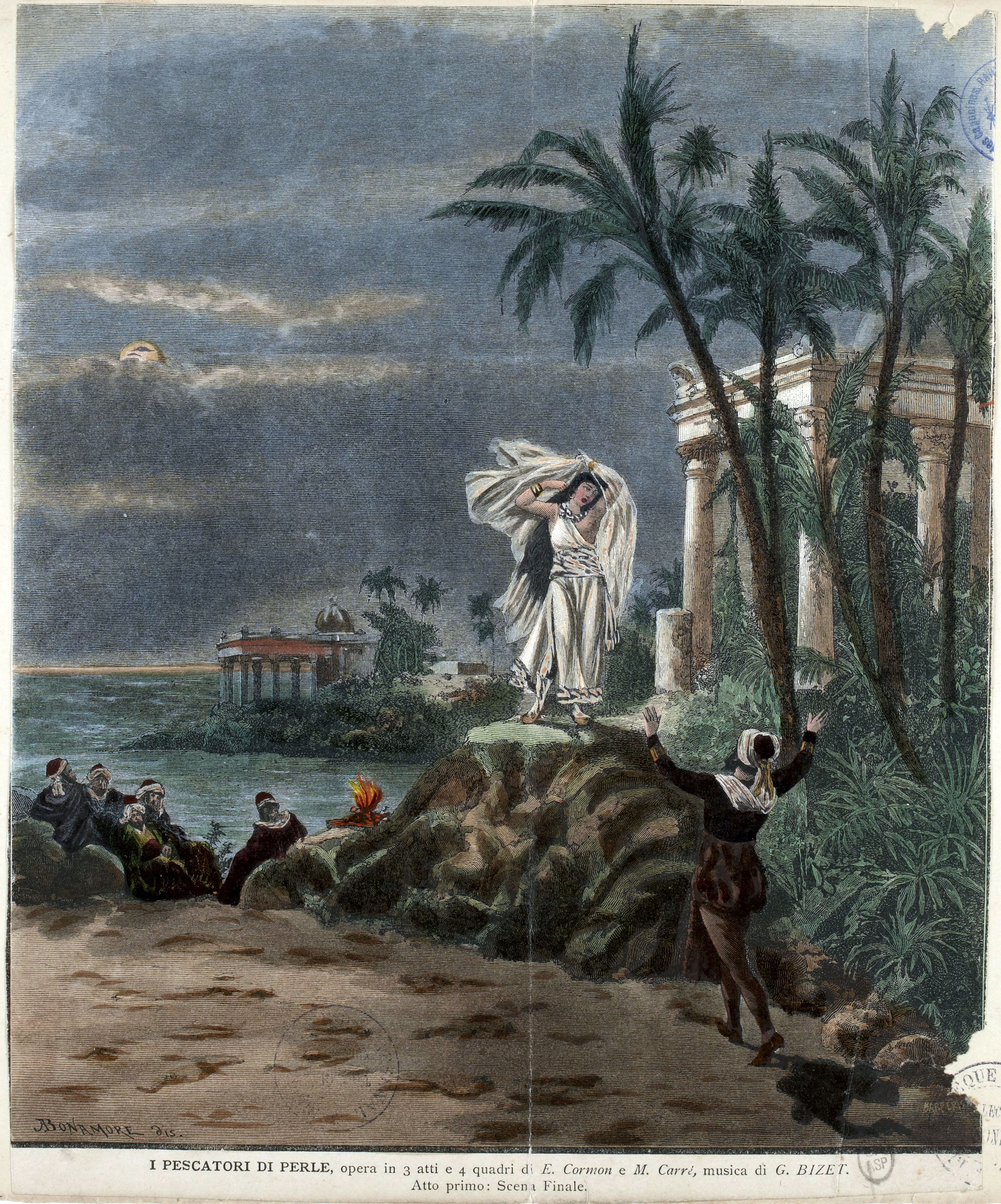 Illustration for the final scene of act 1 (duet of Leïla and Nadir) in the opera Les pêcheurs de perles by Georges Bizet, as produced at La Scala on 20 March 1886